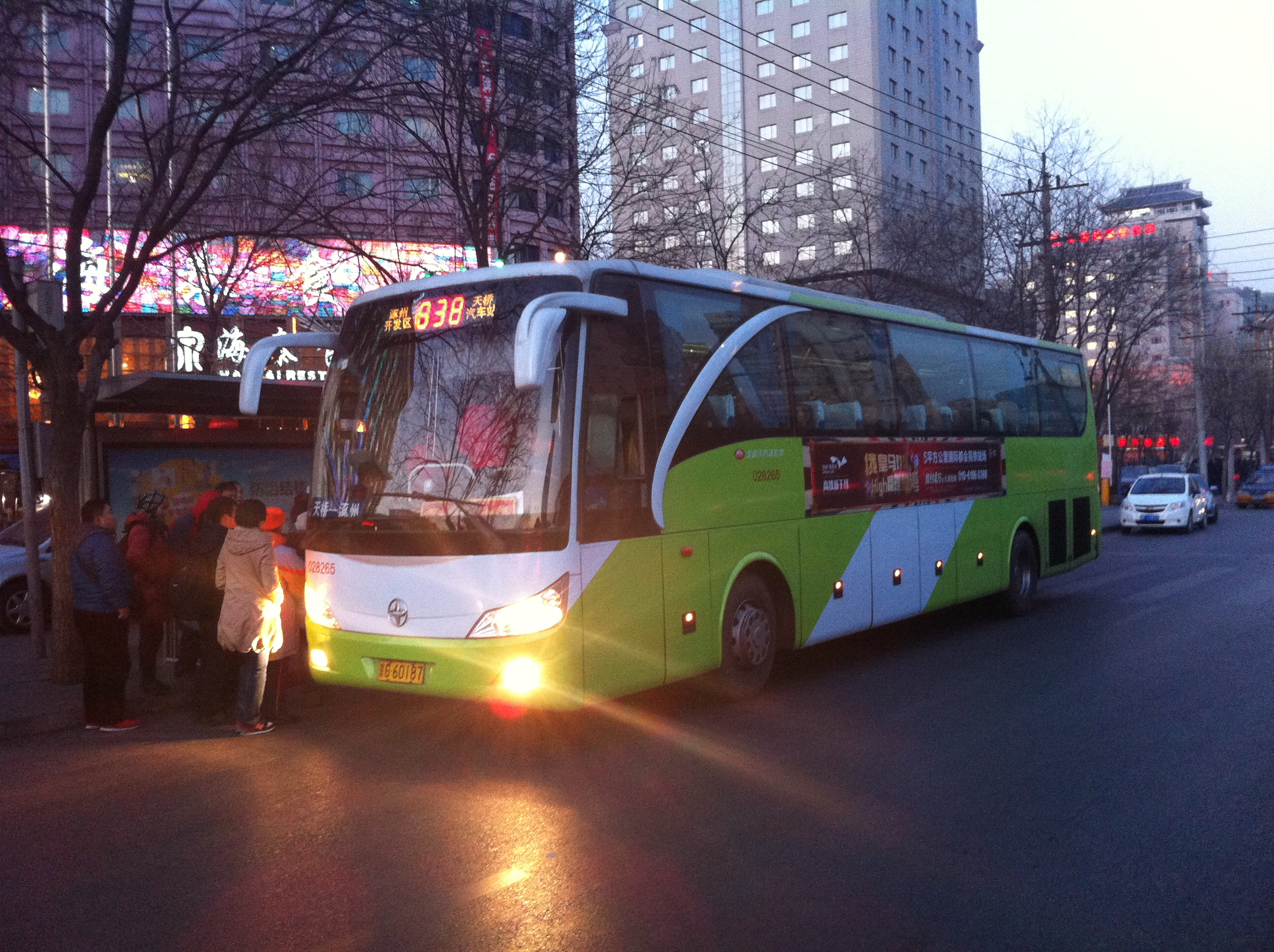 A No.838 bus (model Yaxing YBL6123HE4) bound for Zhuozhou, at the Liuliqiao East intercity bus stop. Normally, those who live in Zhuozhou and work in Beijing would regard this route as a commuter.